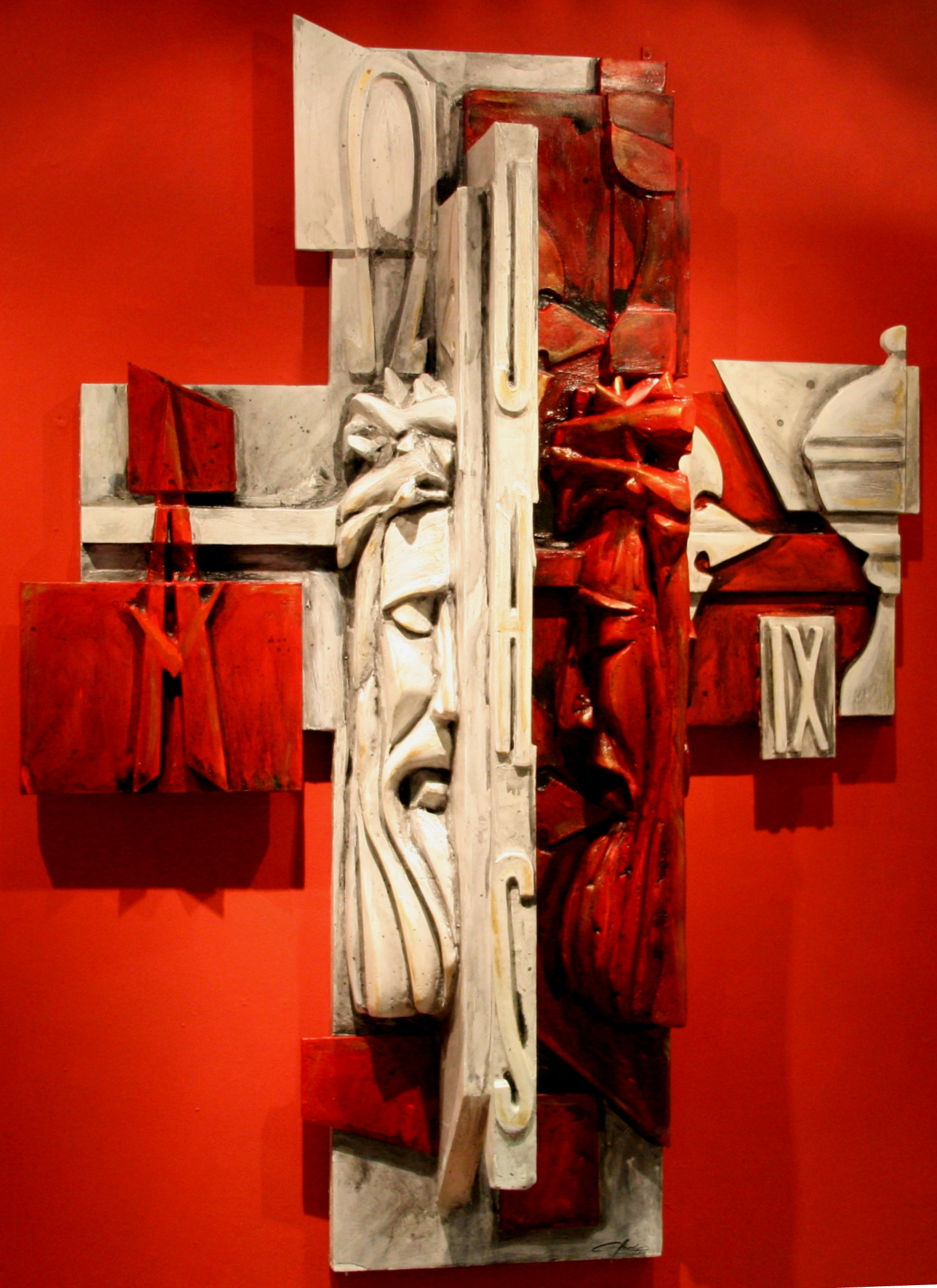 "Hipóstasis", image of Jesus Christ created by Gladys Torres